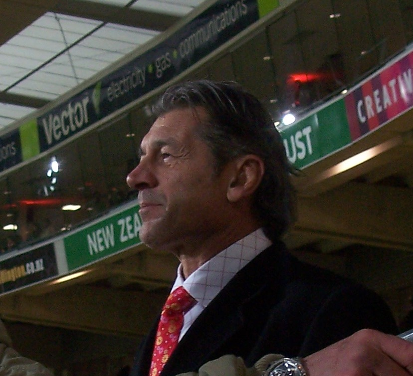 editing of original